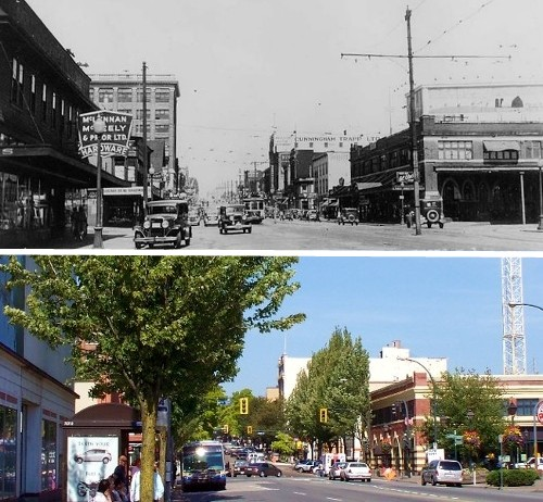 Original 1932 B&W photograph courtesy of the New Westminster Public Library (Accession #3337). Corresponding digitial image was photographed by me in July 2008. This is a scene of Columbia Street. This is New Westminster, British Columbia, Canada. Shots are from the west end of the street looking east. The street runs parallel to the Fraser River.